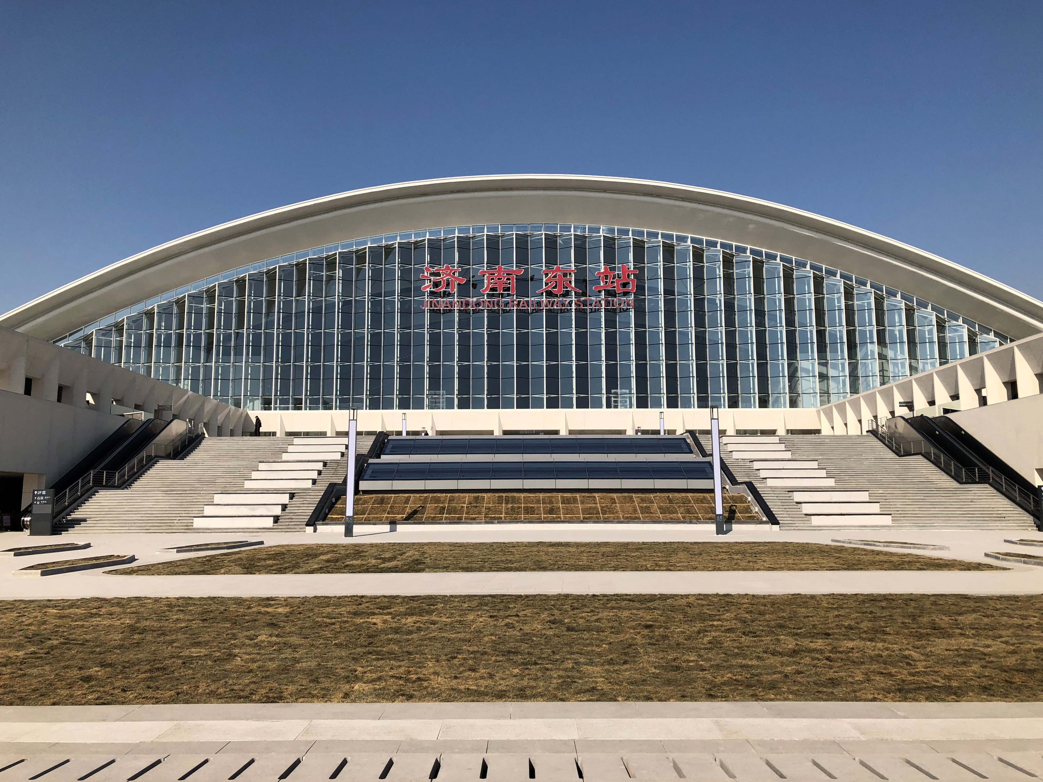 Jinandong Station outdoor scene.